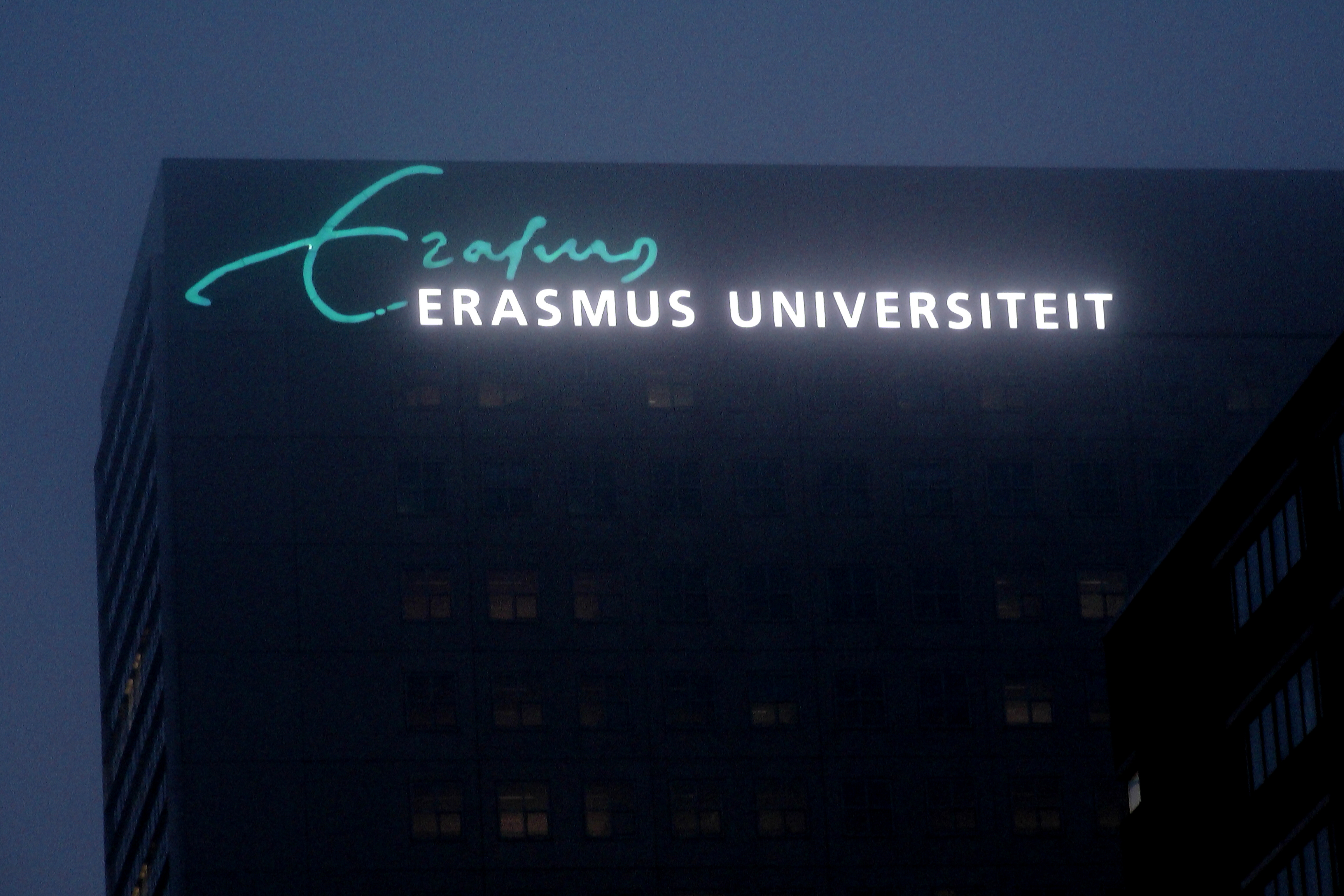 Erasmus University main campus in the night. Photo by Persian Dutch Network. - 2013